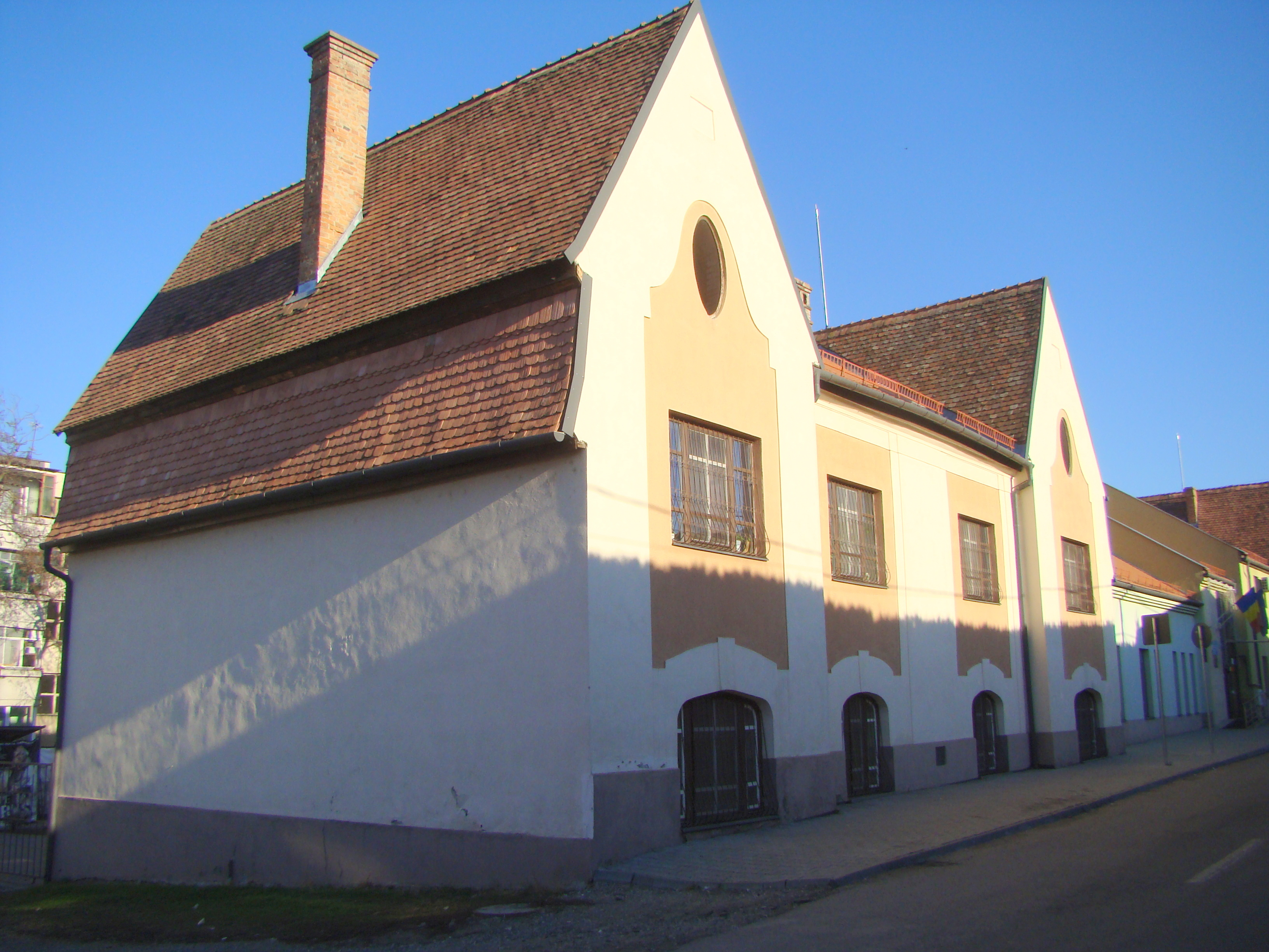 Asylum for the Elderly, Târgu Mureș, Mureș county, Romania